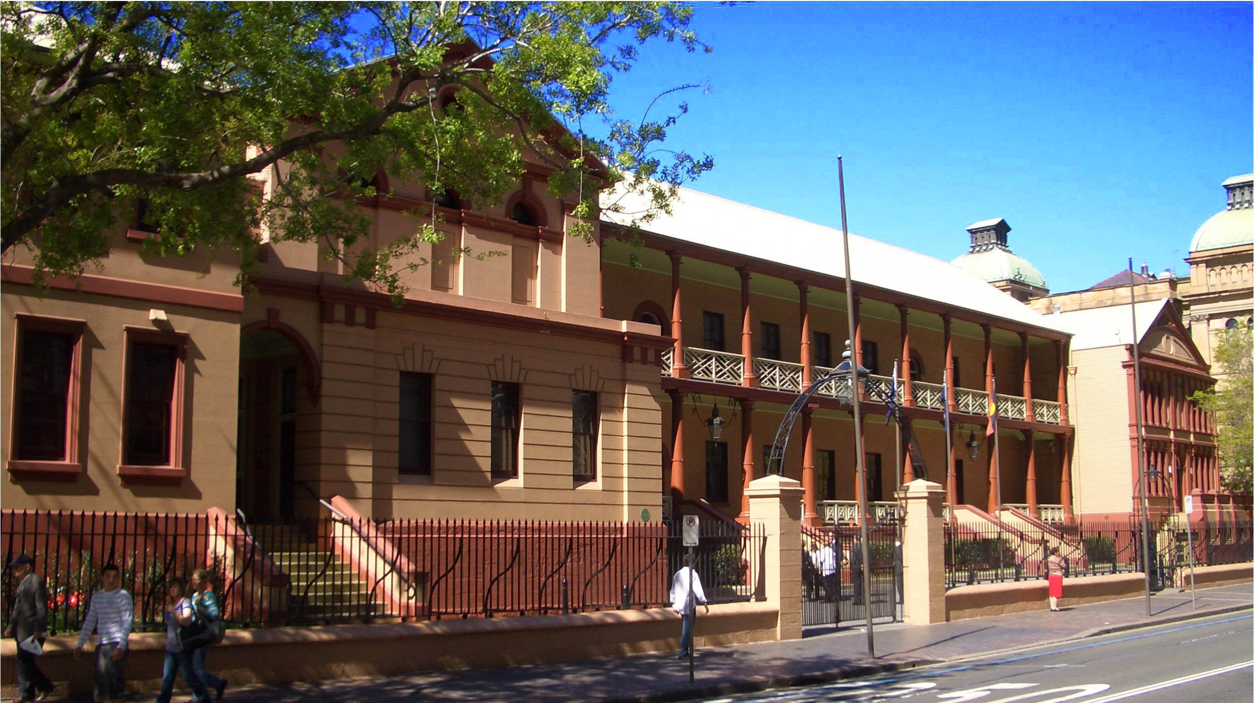 Macquarie Street, Sydney, Australia. I took this photo on the 1st September 2006. J Bar 23:17, 3 September 2006 (UTC)